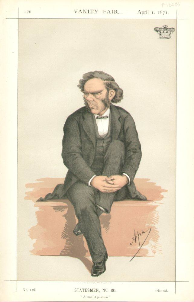 Caricature of George Lyttelton, 4th Baron Lyttelton. Caption read "A man of position".